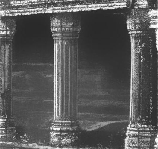 Frank Vincent Angkor Wat column 297